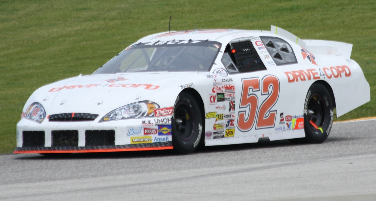 The ARCA Racing Series car of Austin Dillon at the 2013 Scott 160 race at Road America.